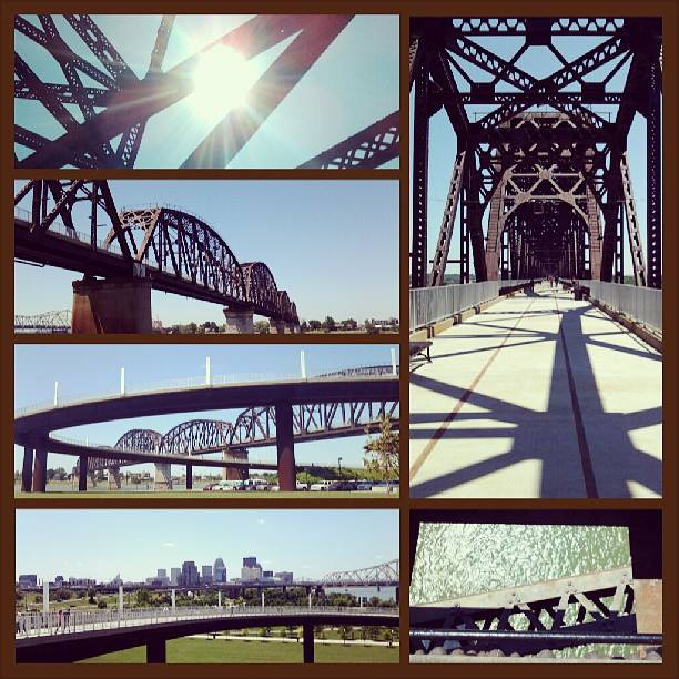 A collage of Big Four Bridge pictures taken on May 24, 2013.